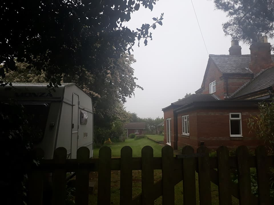 My own.